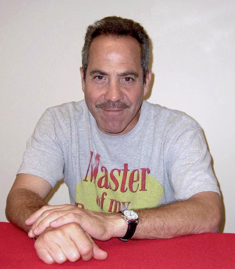 Actor Larry Thomas at the Big Apple Convention in Manhattan, October 1, 2010. He is wearing a shirt that references the Seinfeld episode The Contest (reading "The Master of My Domain" Photo by Luigi Novi. This photo may be used, modified and published for any purpose, only if the photographer is visibly credited in each instance in which it is used. (See licensing information below.) Publication of this photo without proper attribution constitute copyright infringement. For more information on my photos, you can contact me here.